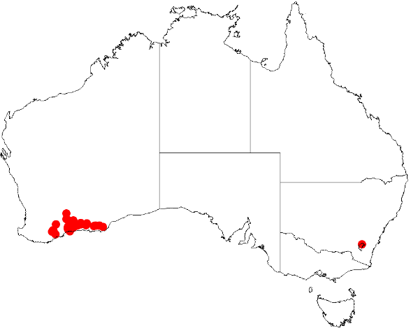 Acacia binata Occurrence data from Australasian Virtual Herbarium downloaded from on 8 December 2018